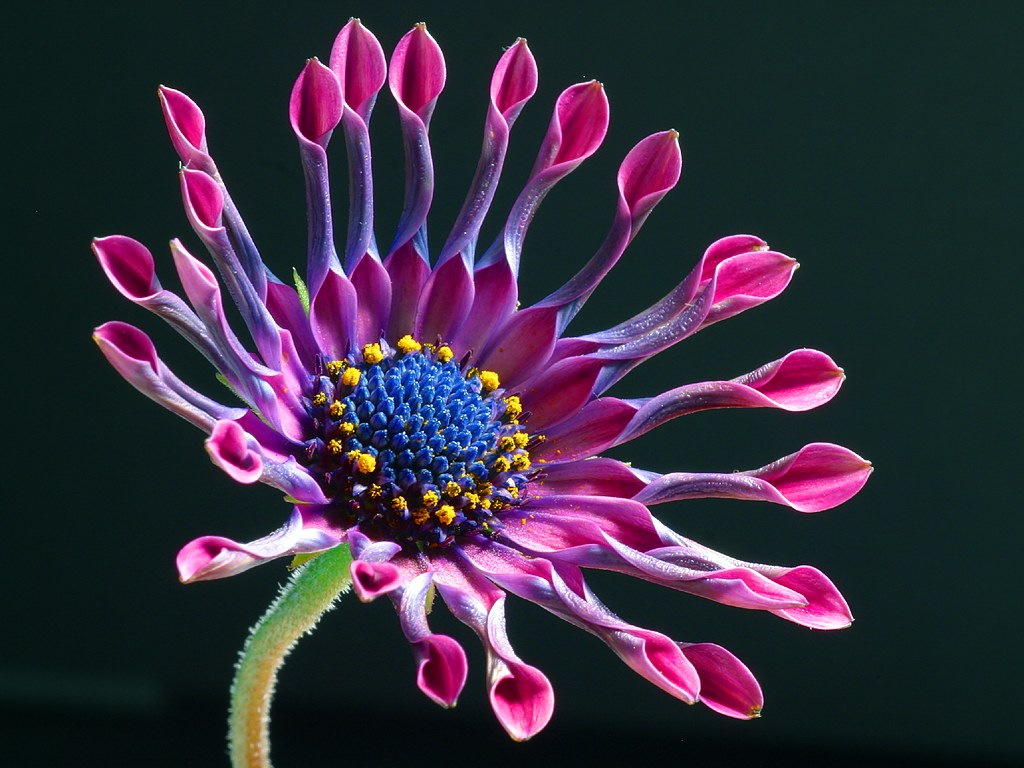 African daisy (Osteospermum sp. 'Pink Whirls') with studio lighting.